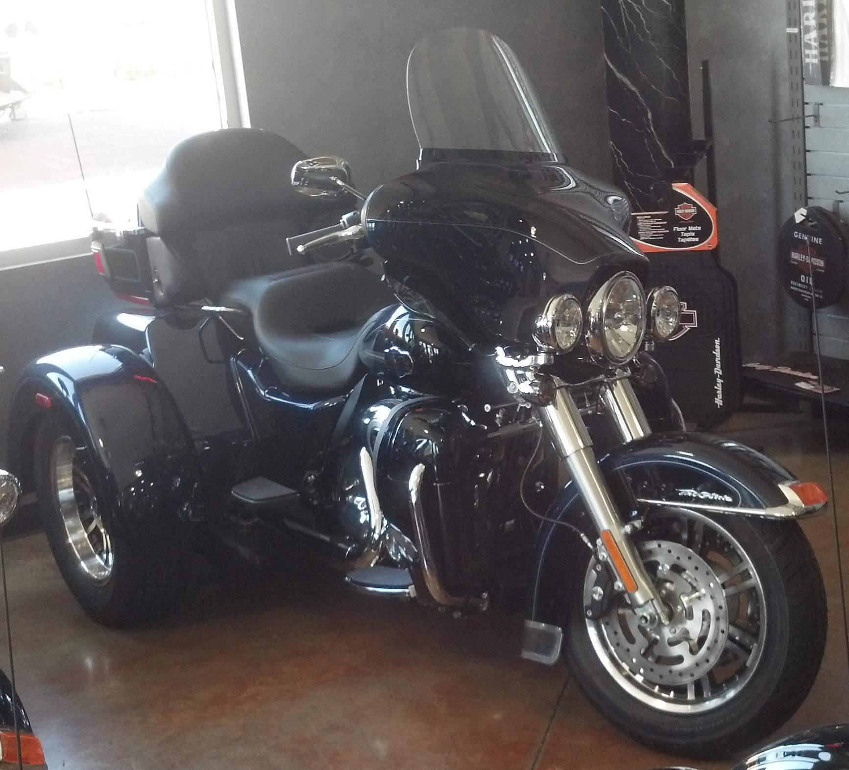 A 2012 Harley Davidson Tri Glide Ultra Classic 3 wheeled motorcycle on display at a dealer in Vacaville, California